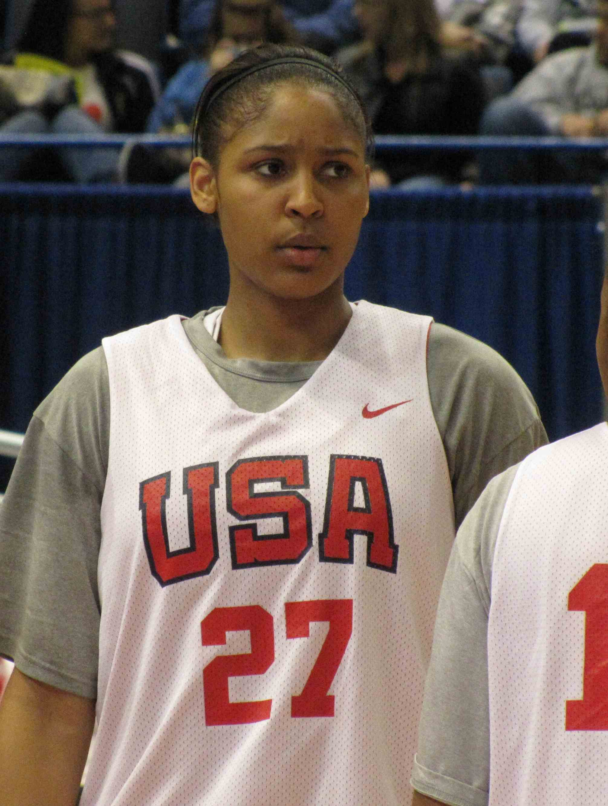 USA Training session for players on the USA National team and USA Select team, beginning training in preparation for the FIBA World Championship. Training took place 14-18 April, culminating in a red-white scrimmage on 18 April at the Veterans Memorial Coliseum in the XL Center, Hartford Connecticut